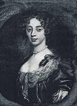 Portrait of Lucy Walter, mistress of king Charles II of Enland